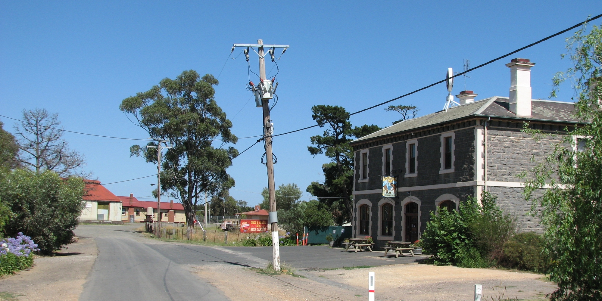 Station Street, Clarkefield, Victoria, Australia. Coach & Horses Inn and railway station in background